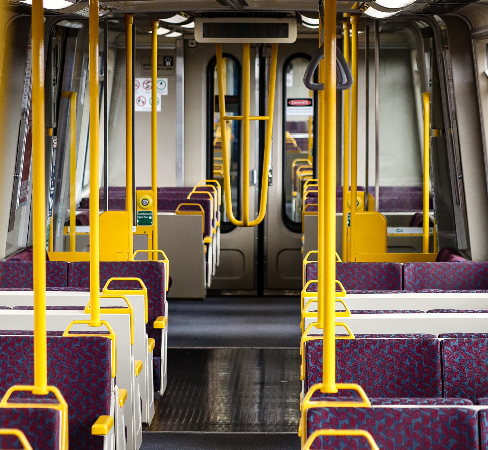 Inside train carriage QR